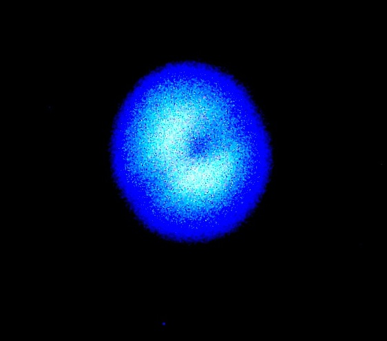 Image of Fresnel Diffraction showing a center black spot.